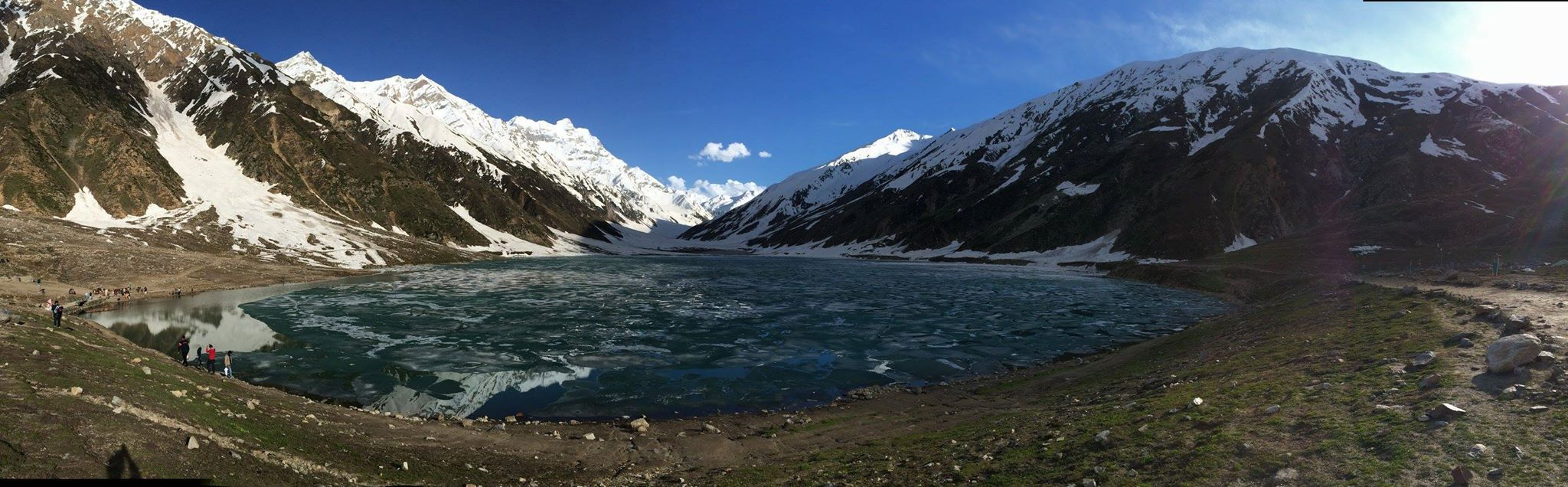 A panoramic image of Saif ul Muluk Lake, taken during the month of june. the image has not been digitally altered.